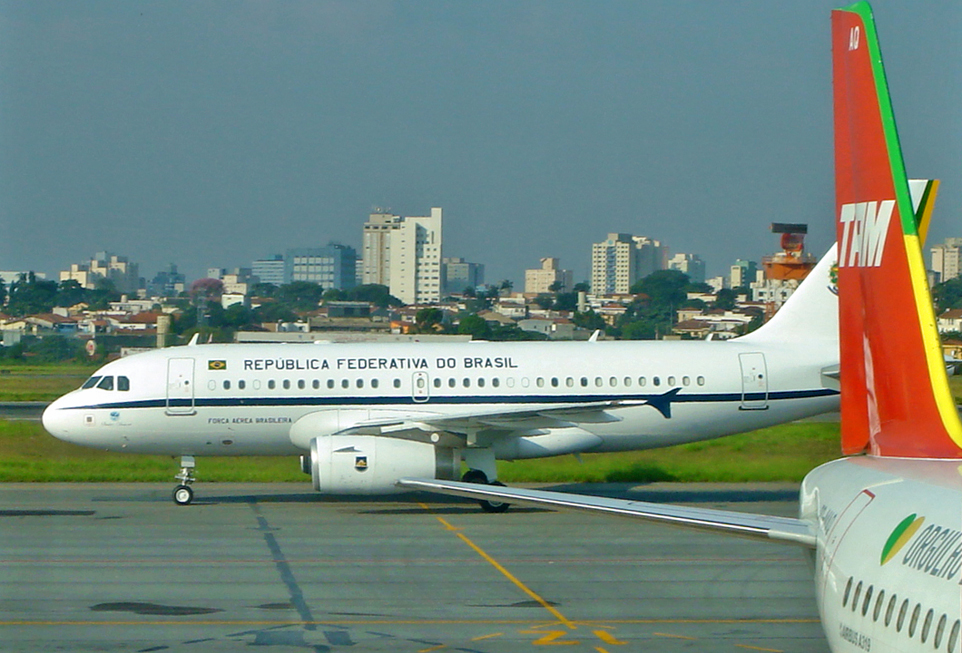 Brazilian Air Force One (FAB 001/BRS01) taxing at Congonhas Airport, Sao Paulo, Brazil. The Brazilian Air Force officially designated as VC-1A, and named it "Santos Dumont".